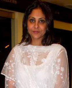 Shefali Shah at Rahul Bose's sports auction event